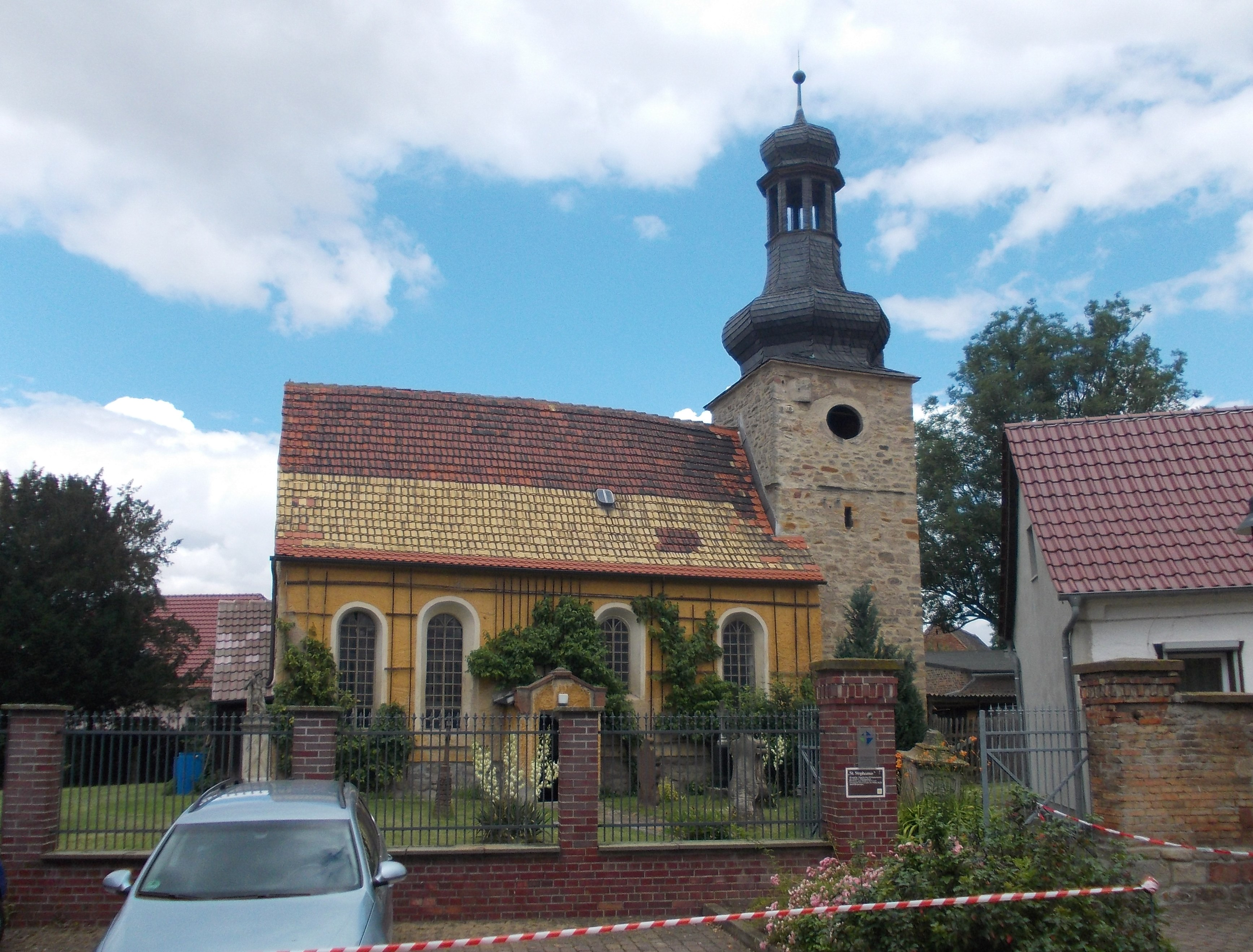 Saint Stephen's Church in Kleinosterhausen (Eisleben, Mansfeld-Südharz district, Saxony-Anhalt)